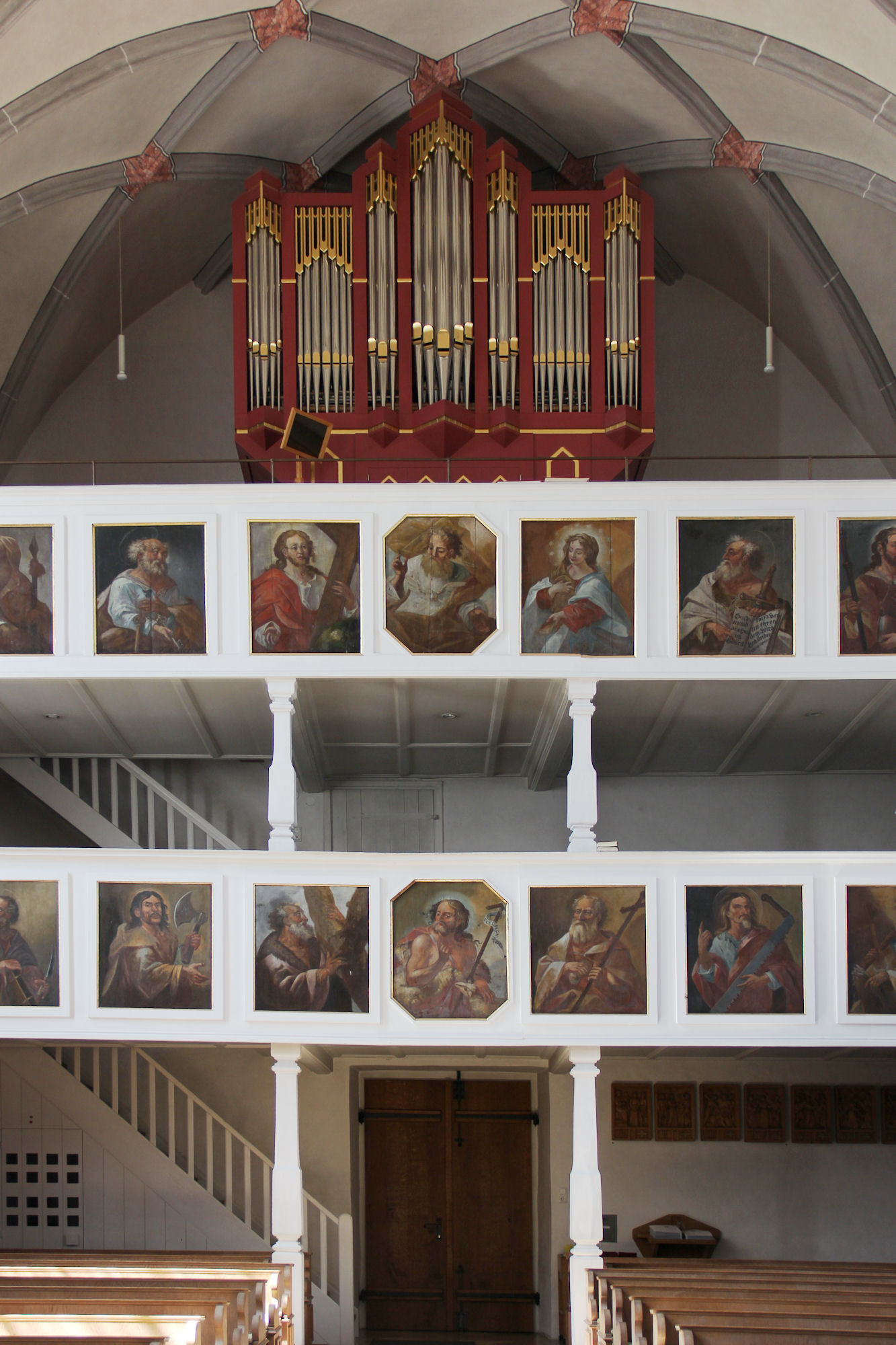 Church of St. John the Baptist Native nameSt. Johannes BaptistLocationZolling, Upper Bavaria, GermanyCoordinates48° 26′ 59.28″ N, 11° 46′ 15.24″ E Authority control : Q2319336 institution QS:P195,Q2319336